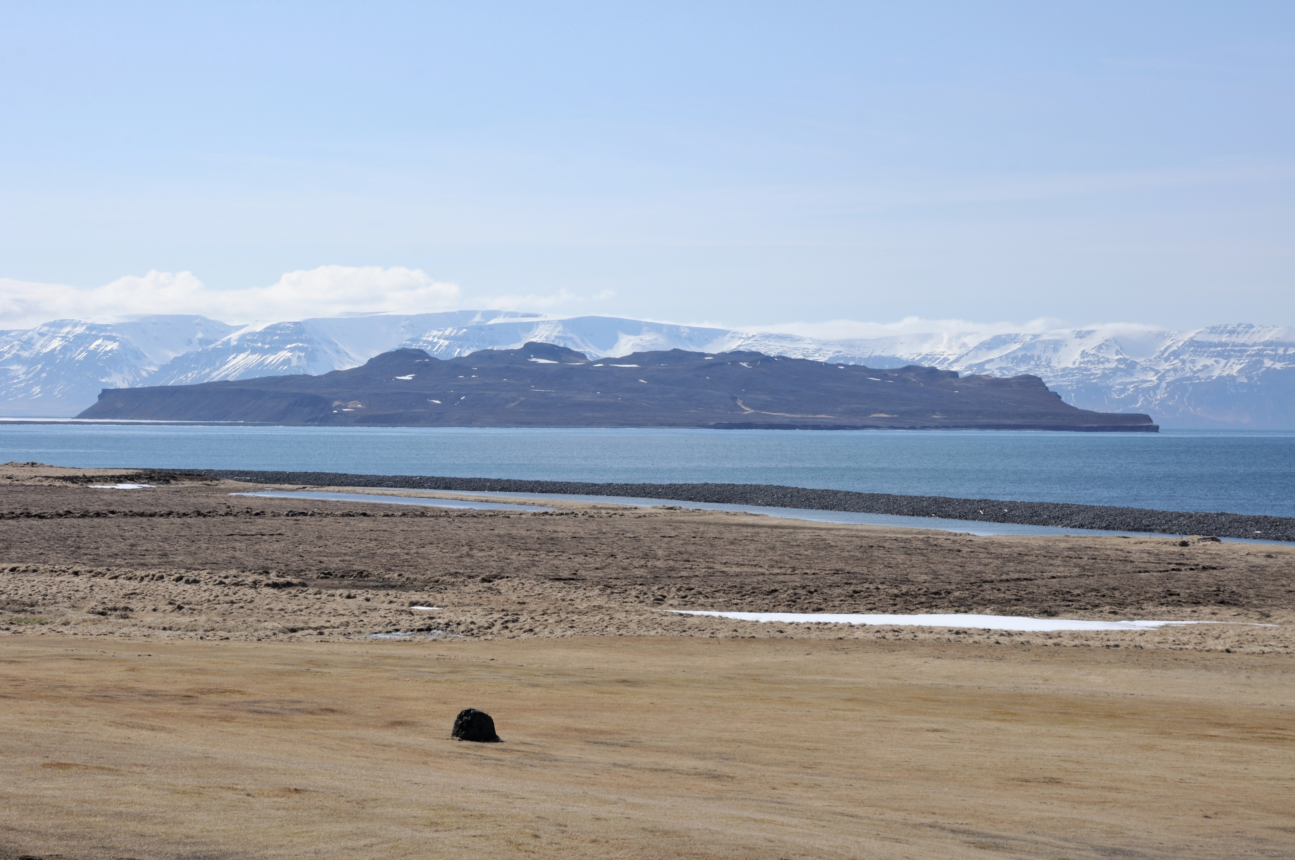 Iceland, impressions along road 76